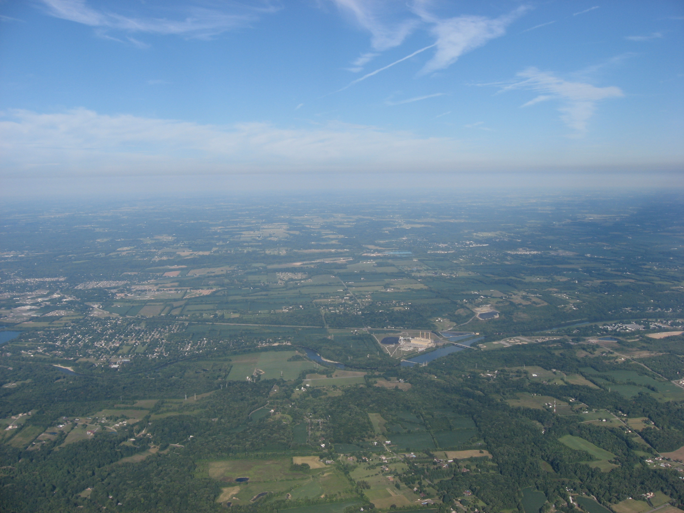 Aerial view of southeastern German Township, Montgomery County, Ohio, United States. The Great Miami River divides the picture in half, with German Township extending from near the river into the distance. Picture taken from a Diamond Eclipse light airplane at an altitude of 4,580 feet MSL and a bearing of approximately 276º.